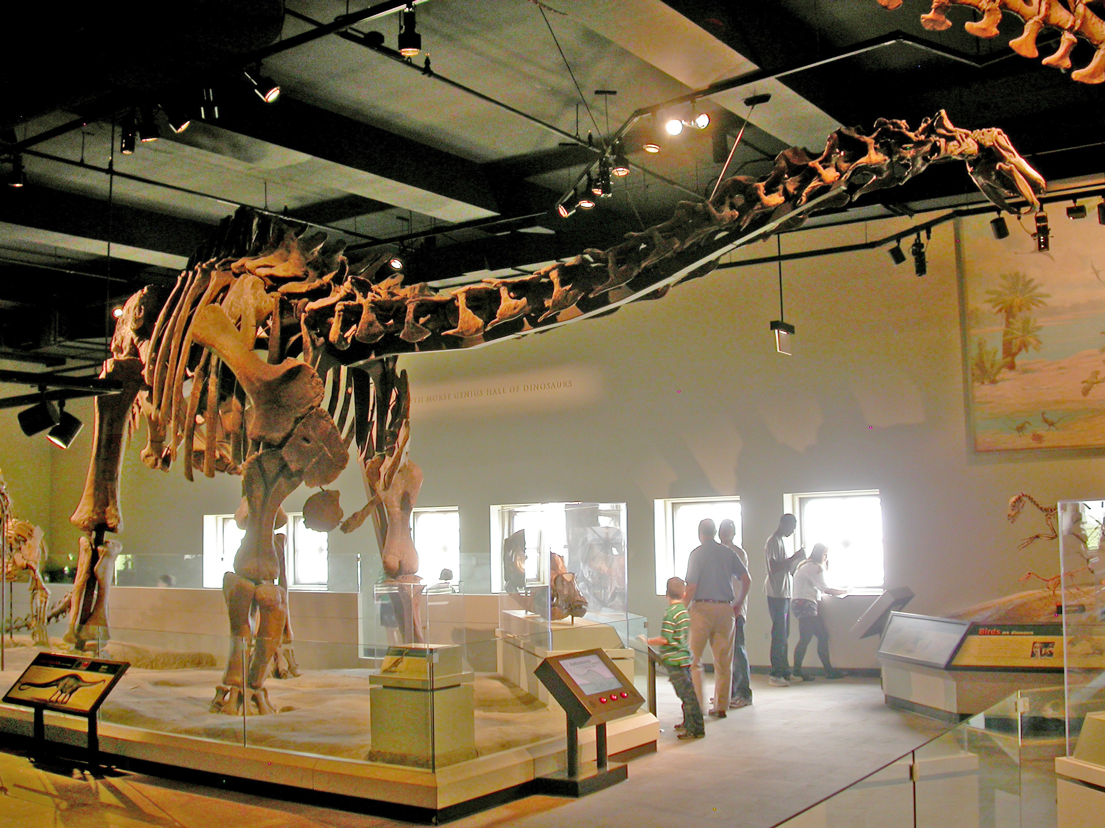 FMNH 25112, an intermediate diplodocoid, possibly apatosaurine or diplodocine.